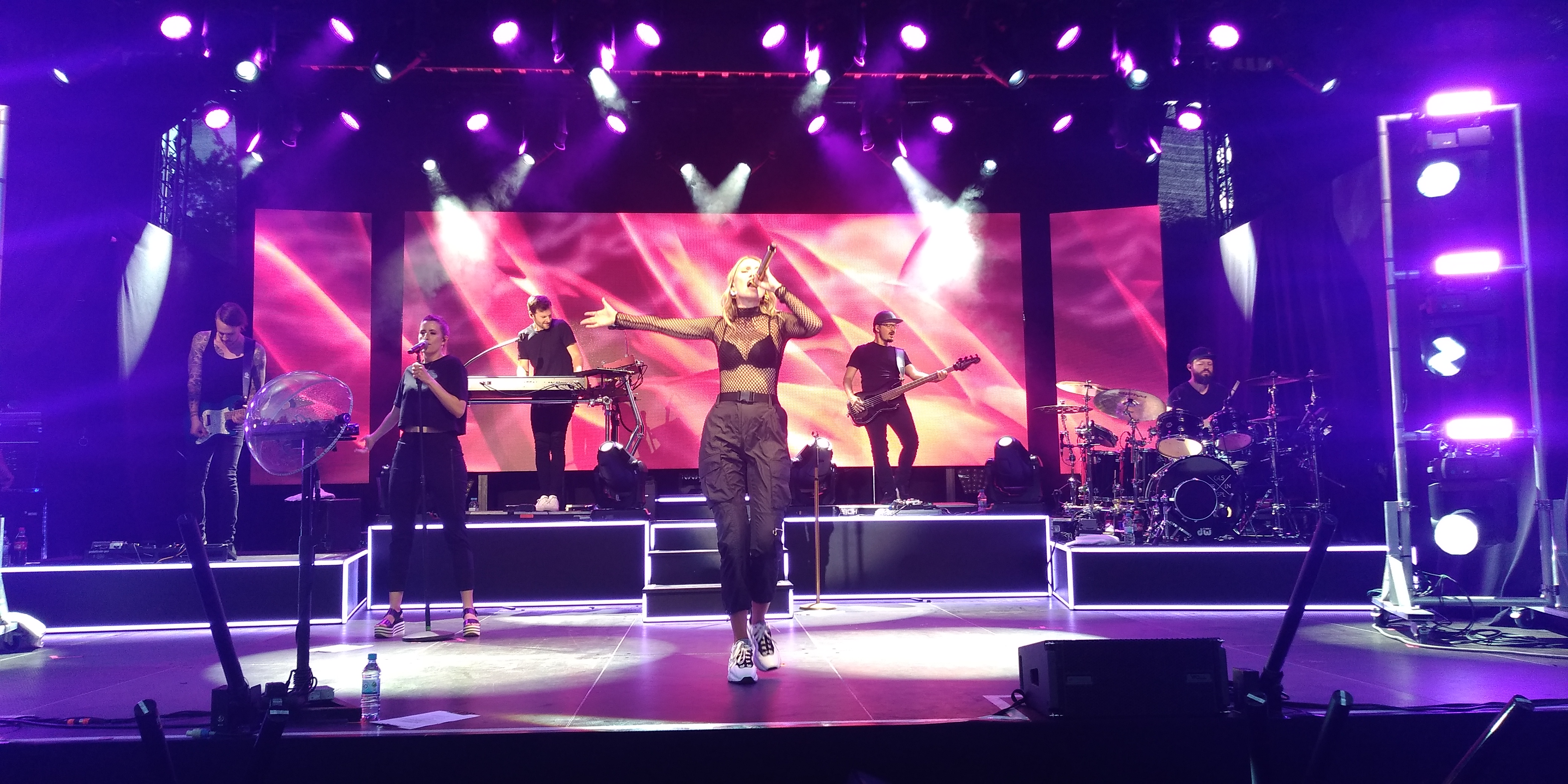 Live at 850 years festival in Melle.